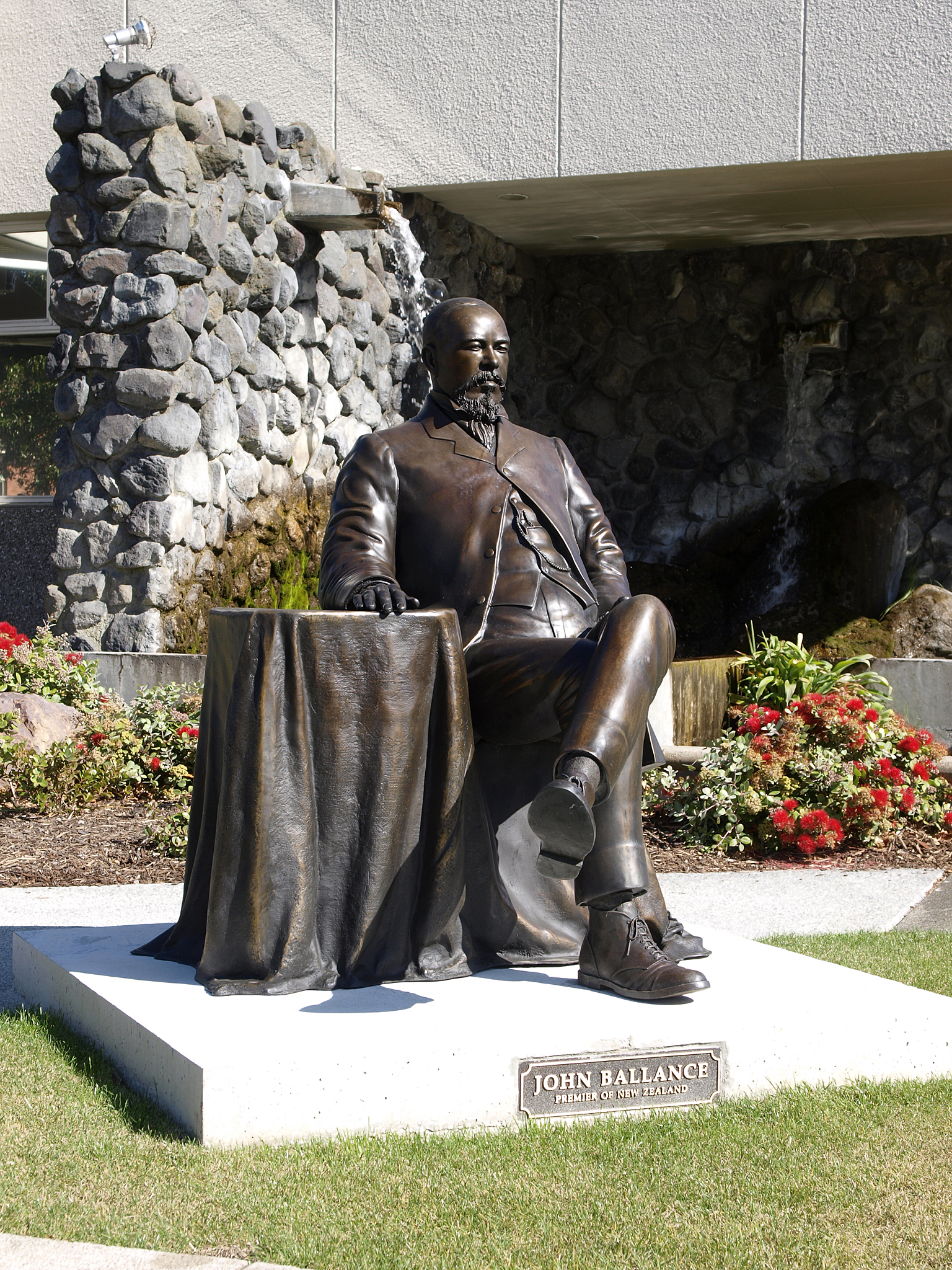 John Ballance (1839–1893), Primeminister of New Zealand, Sculpture in front of Whanganui City Council Building, Whanganui, New Zealand